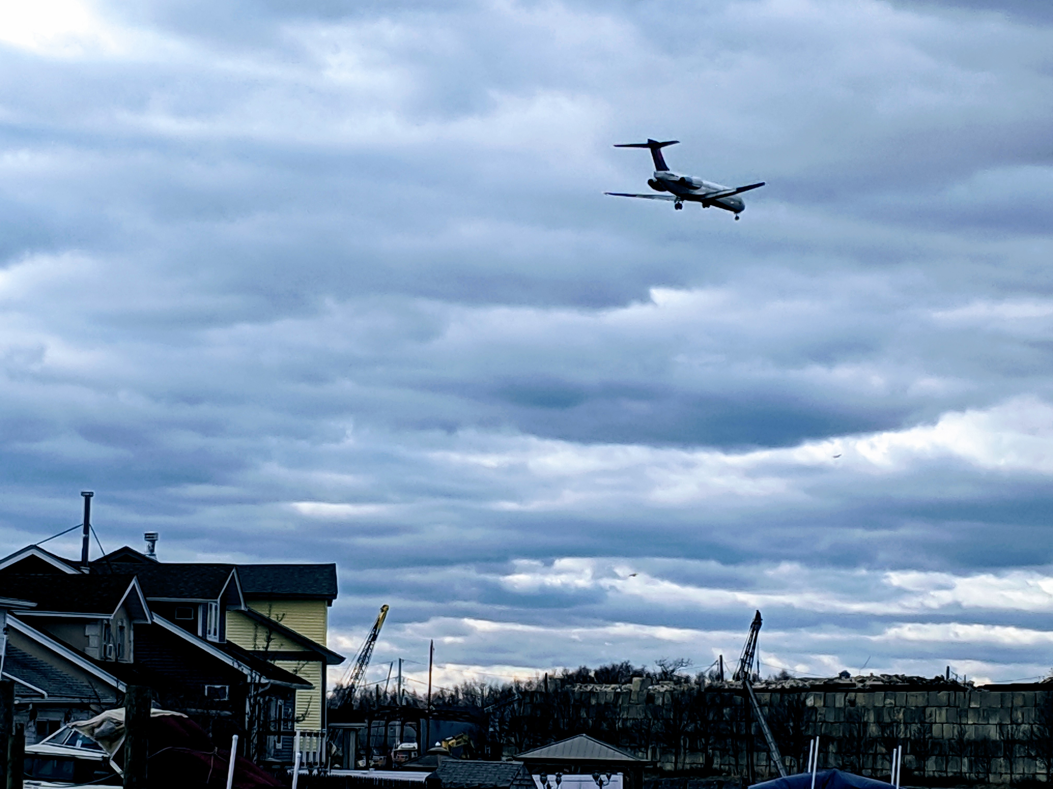 Overflights when runway is in use occur every 3-5min